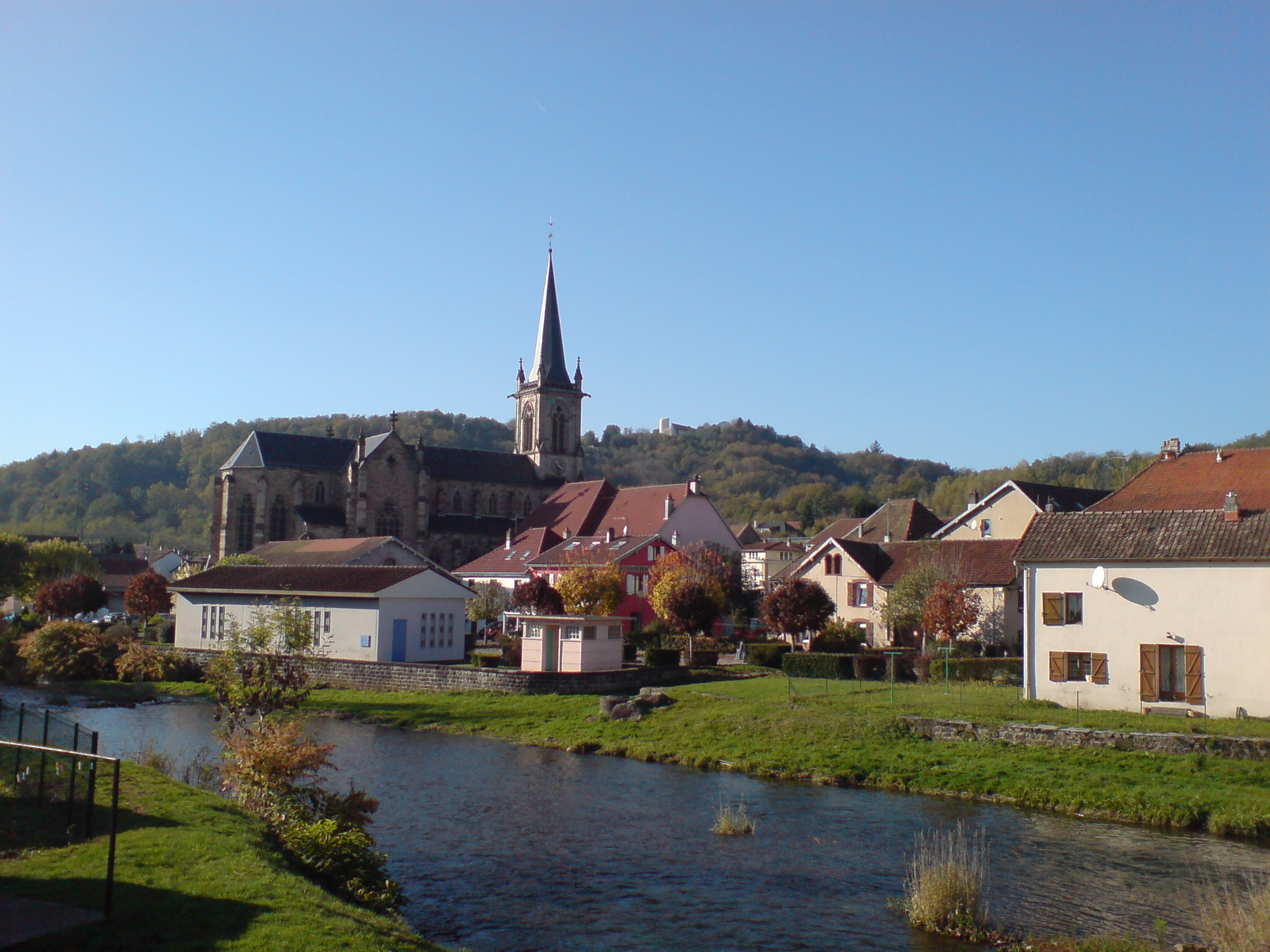 This is a view of Ronchamp, sceen from behind the church